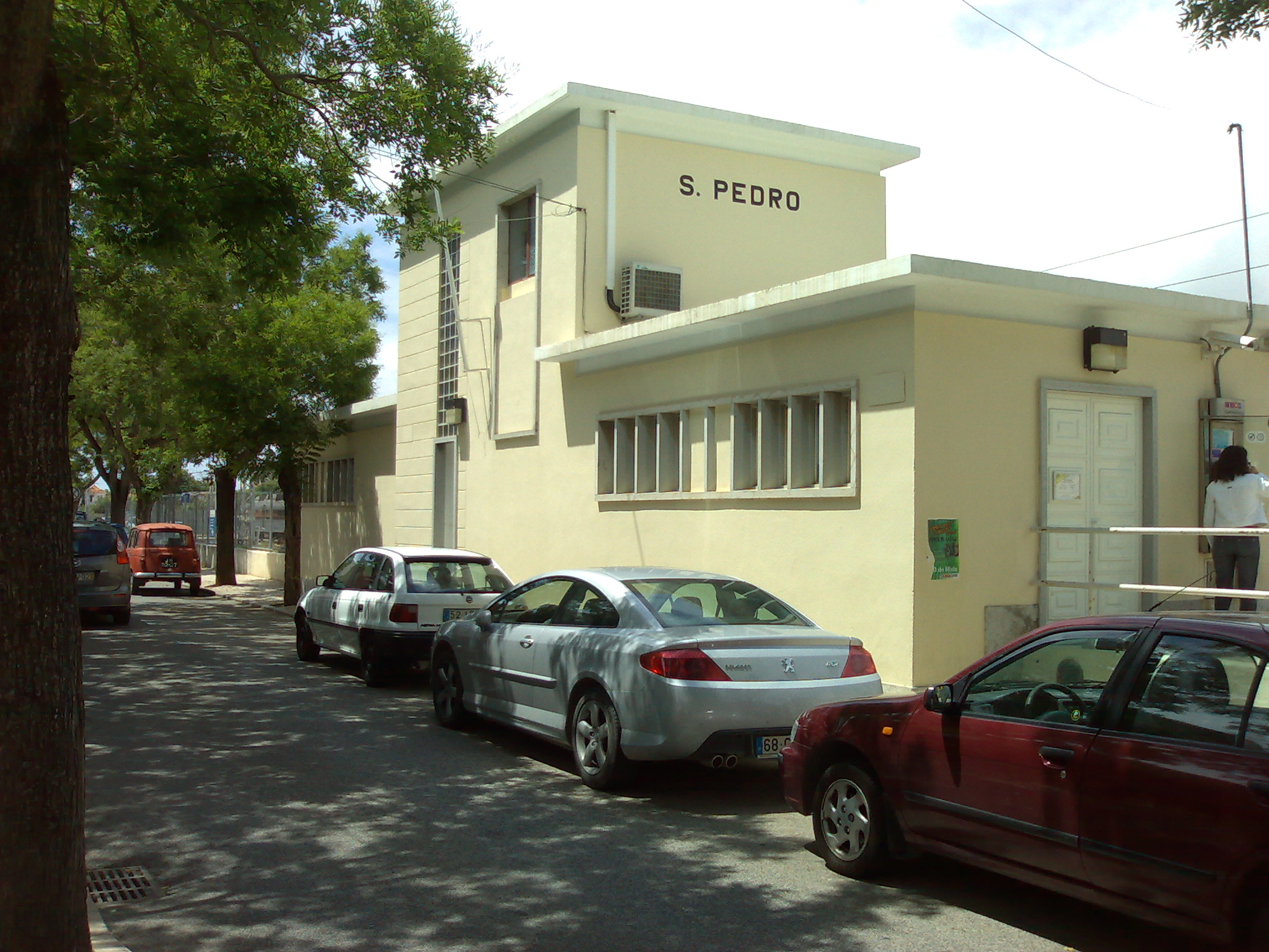 São Pedro train station, Cascais, Portugal.